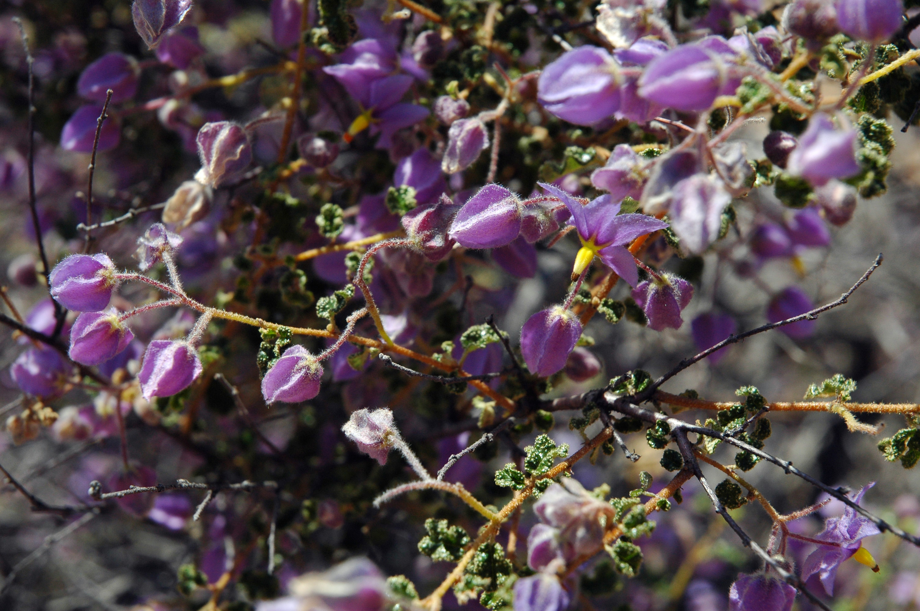 Crinkle-leaved Firebush Keraudrenia hermanniifolia, Western Australia.